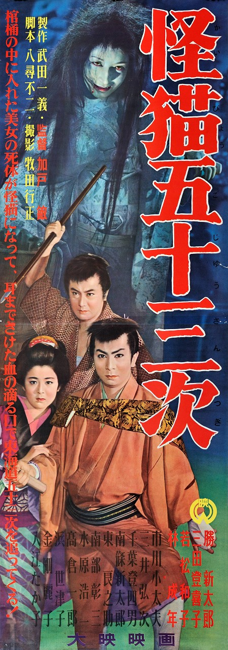 1956 Japanese movie poster (B2 size) for 1956 Japanese movie Ghost-Cat of Gojusan-Tsugi (怪猫五十三次 Kaibyo Gojusan-tsugi).